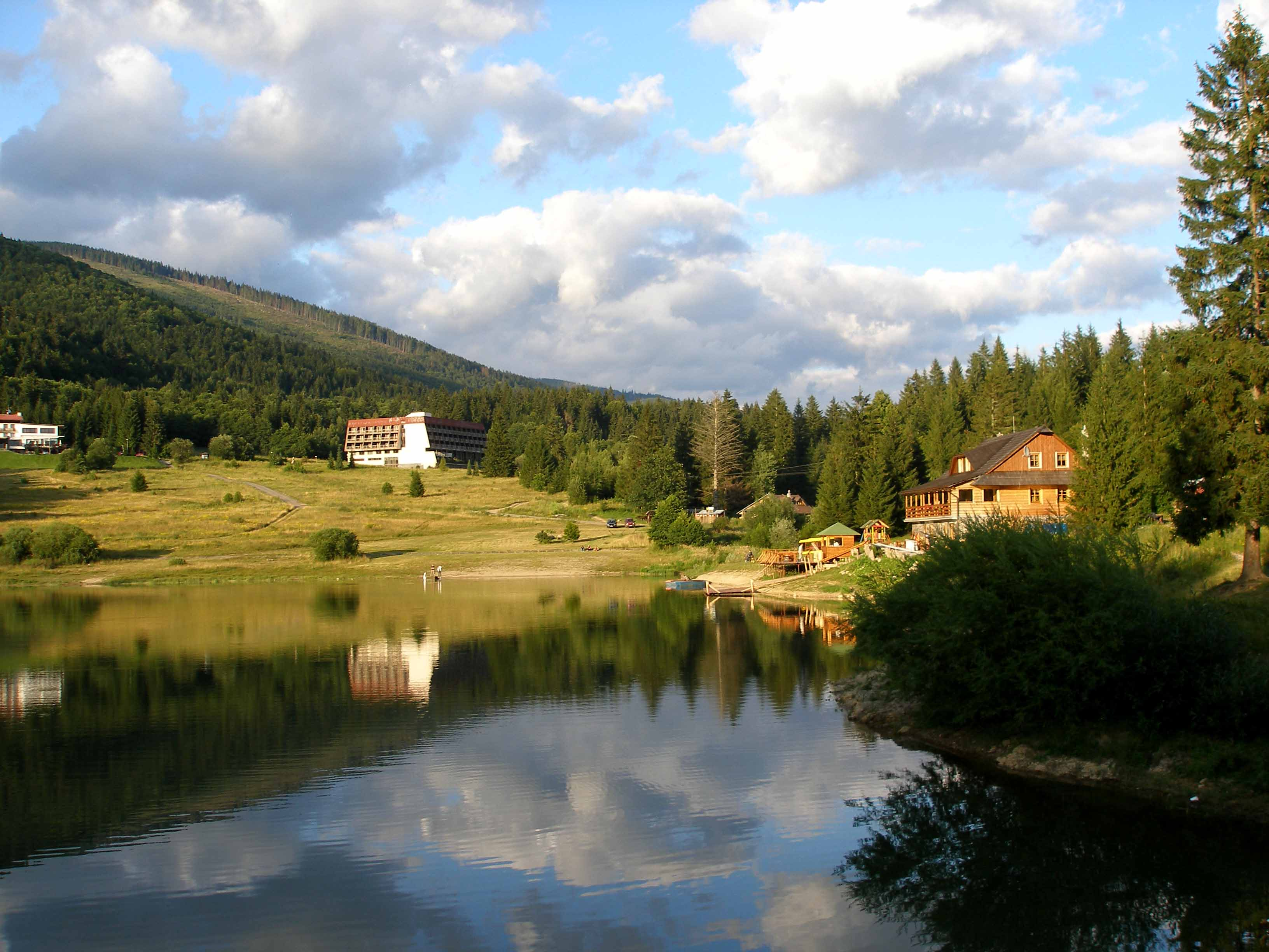 View on the land